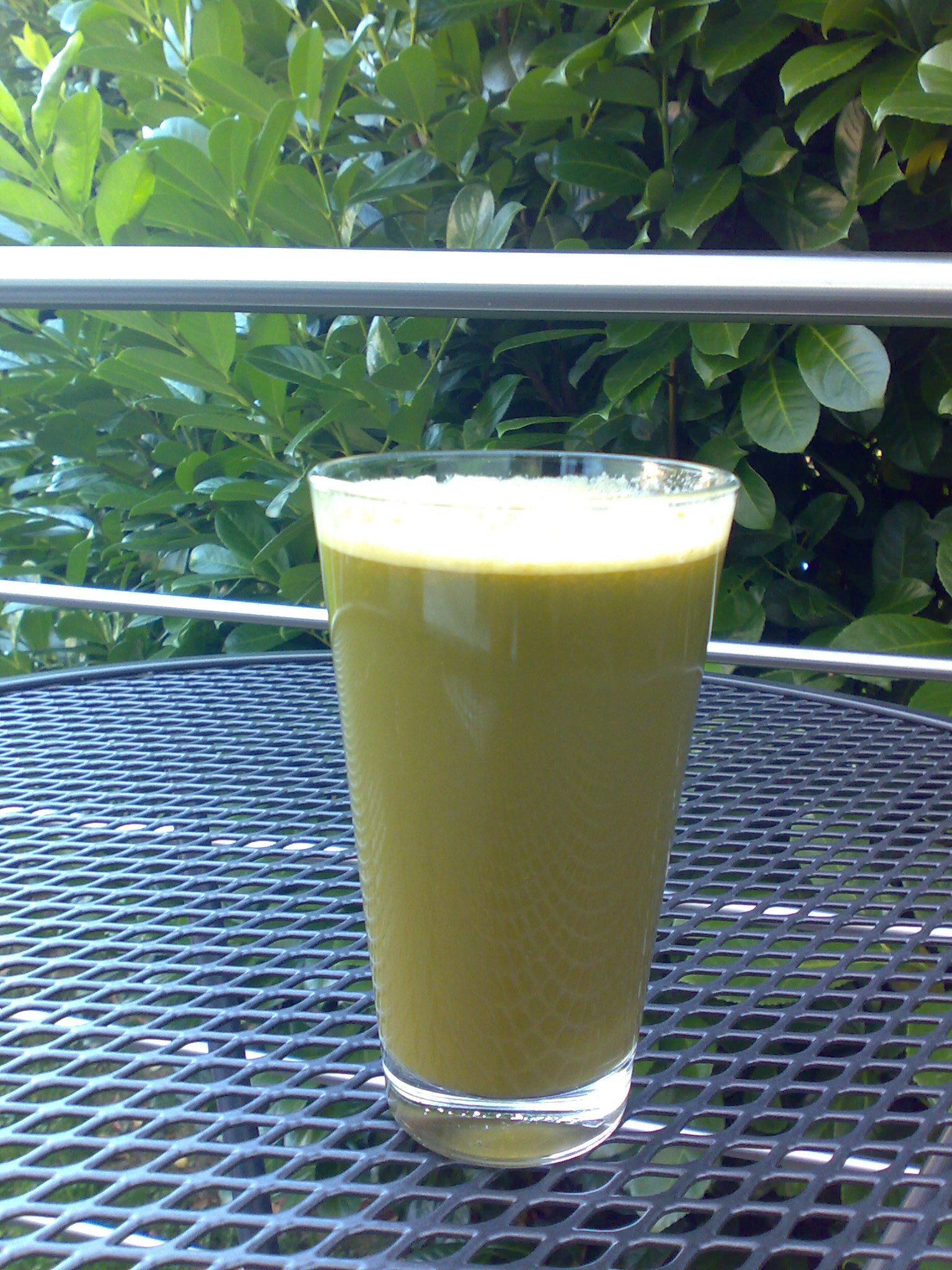 green juicer